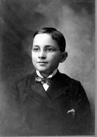 Harry S. Truman at thirteen years of age, wearing a bow tie and glasses. See also 62-97, 62-412, 66-2929, 77-61, and 77-3963. From the estate of Mary Jane Truman; 79-26; Size: 6.5x4.25 inches